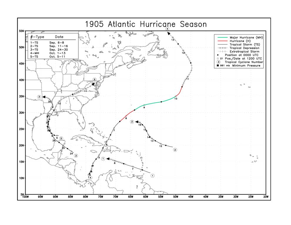 Season summary provided by NOAA of the 1905 Atlantic hurricane season.